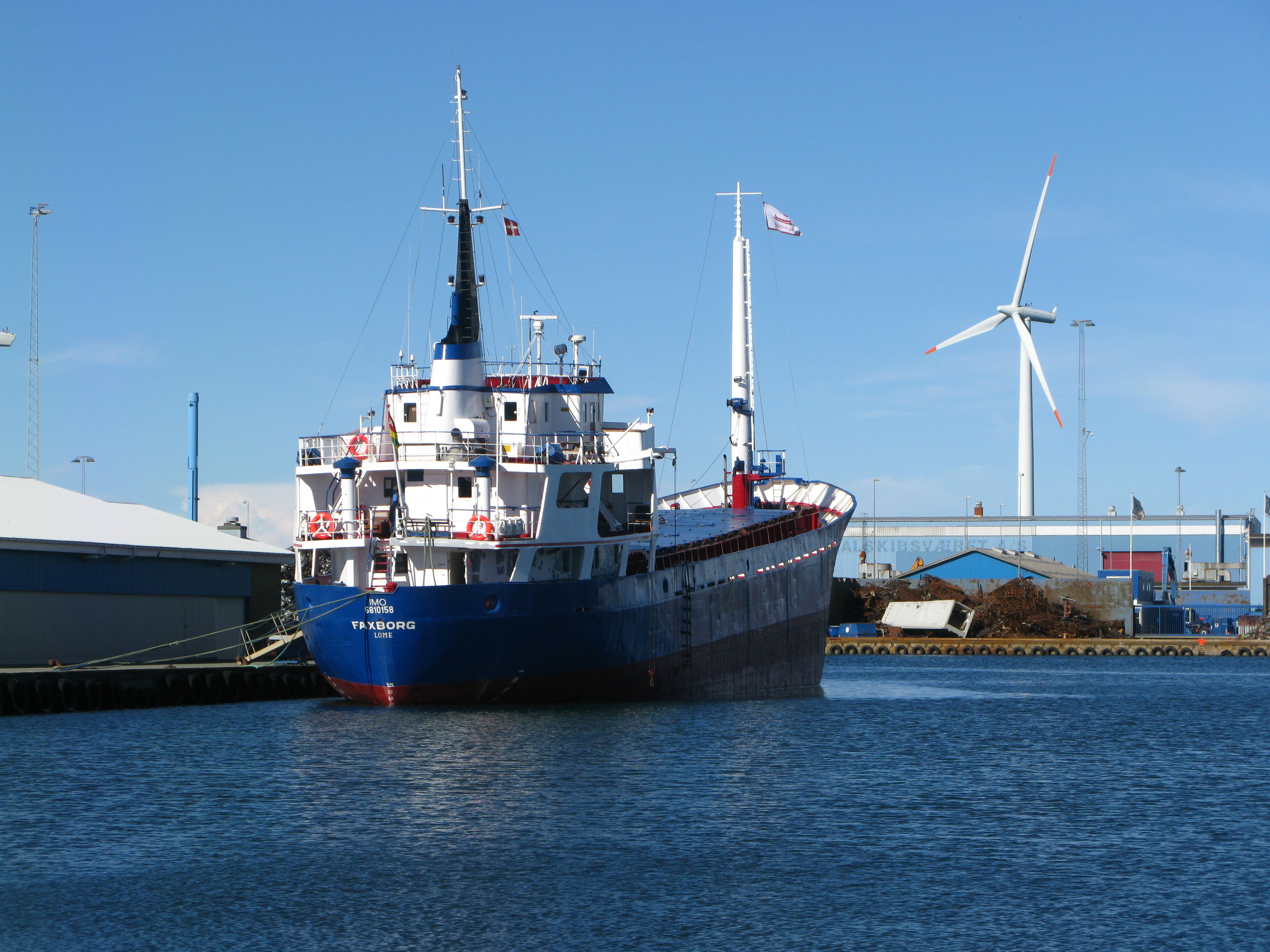 Ship "Faxborg" in the harbour of Frederikshavn (Northern Denmark)